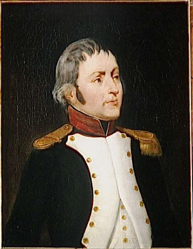 Portrait of Augstin Daniel Belliard, French soldier